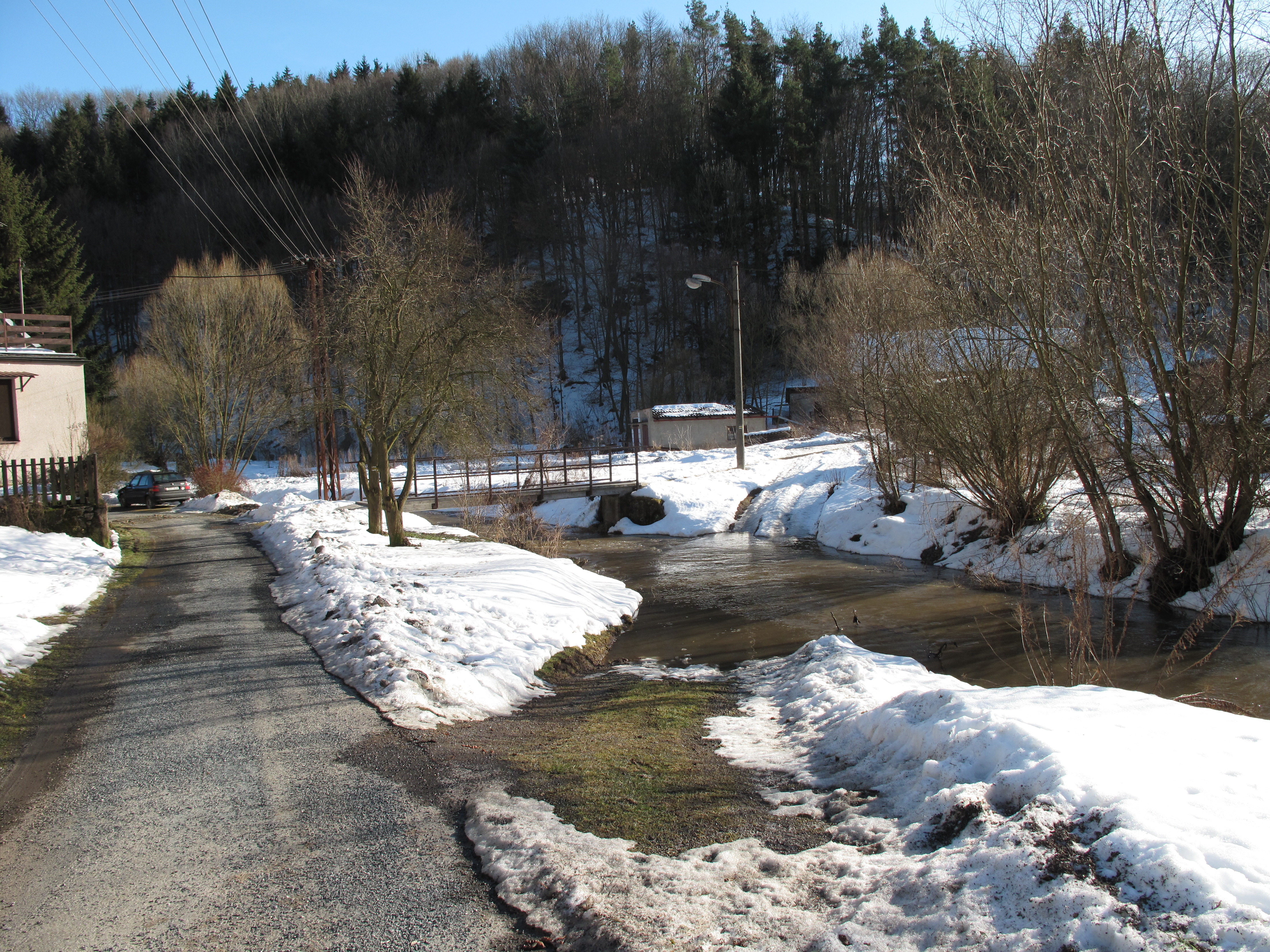 Flooded ford on Jevanský Stream in Stříbrná Skalice village, Prague-East Region, Czech Republic. This photograph was taken within the scope of the 'Czech Municipalities Photographs' grant.